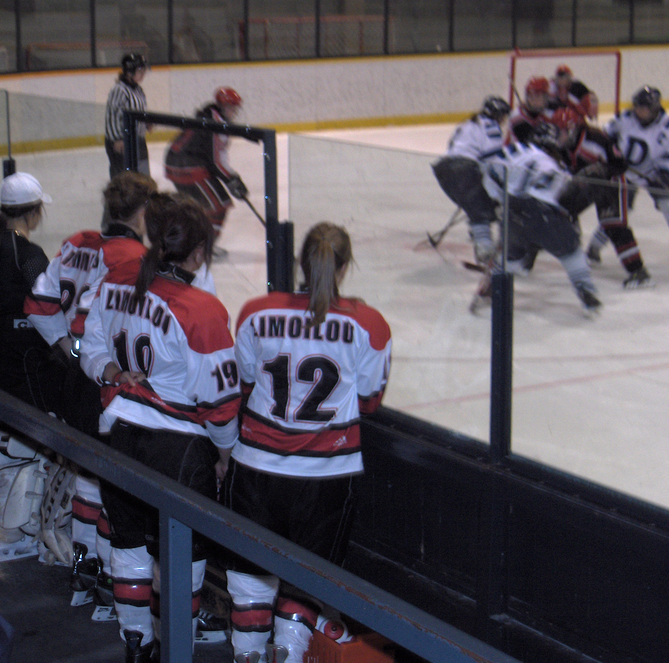 Tournement of Coupe Dodge (Hockey)